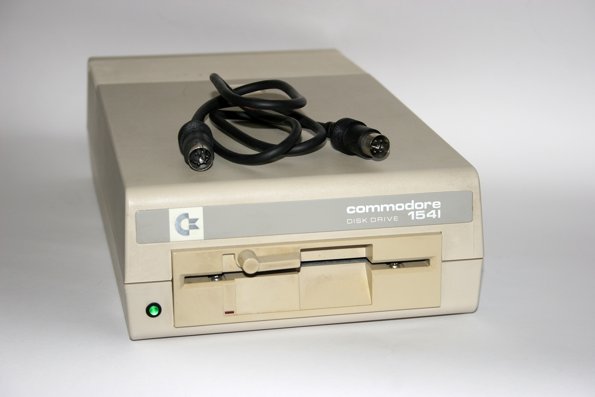 Commodore 1541C 5.25" Diskette Drive (white version with lever locking mechanism). Serial cable on top.